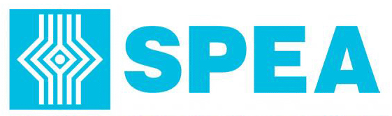 SPEA S.p.A. logo